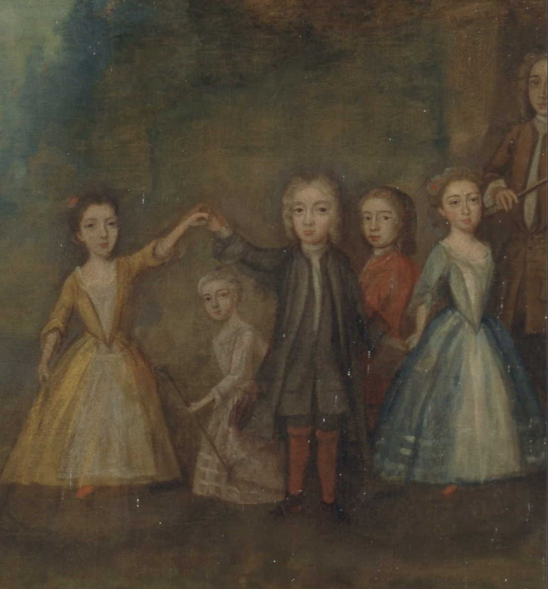 Conversation piece showing the 2nd Duke of Devonshire (at left, in red), Lord James Cavendish (standing, in brown), Elihu Yale (center, in purple), and Mr. Tunstal, lounging in a loggia with long pipes and wine, with a Page, and children playing in the background.